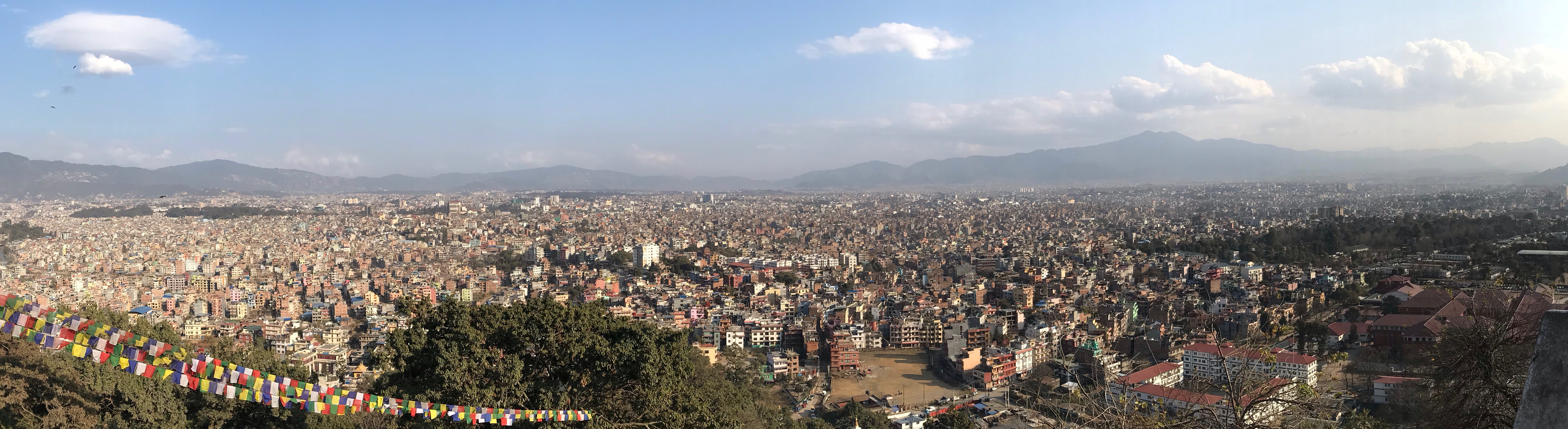 Panoramic view of Kathmandu Valley from Swoyambhu hill.